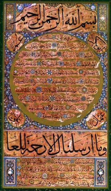 The Hilye-i Serif, by Hafiz Osman, 17th century. A calligraphic verbal description of Mohammed. Topkapi Palace Library, Istanbul.